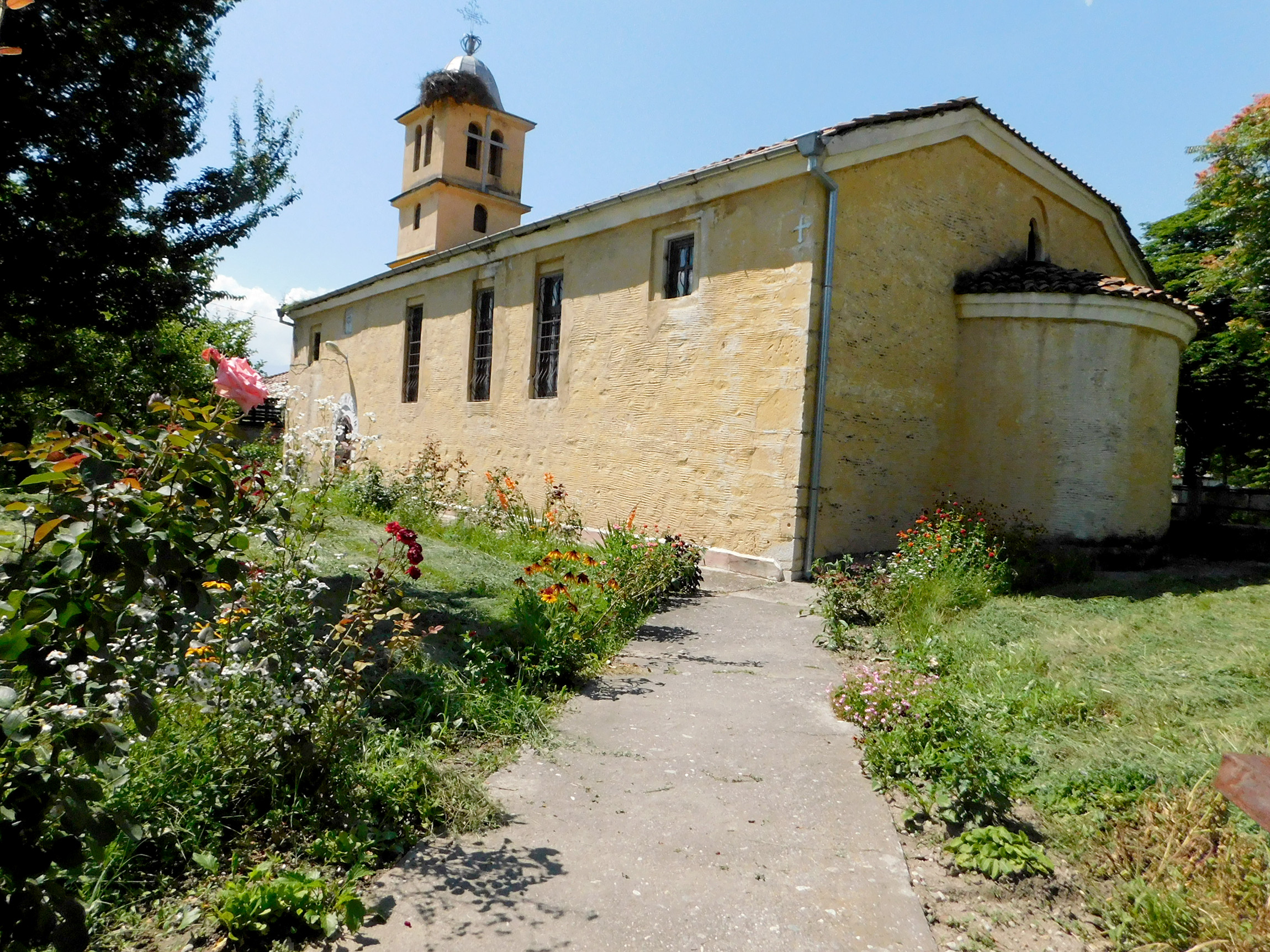 Saint George churche in Gurmen, Bulgaria